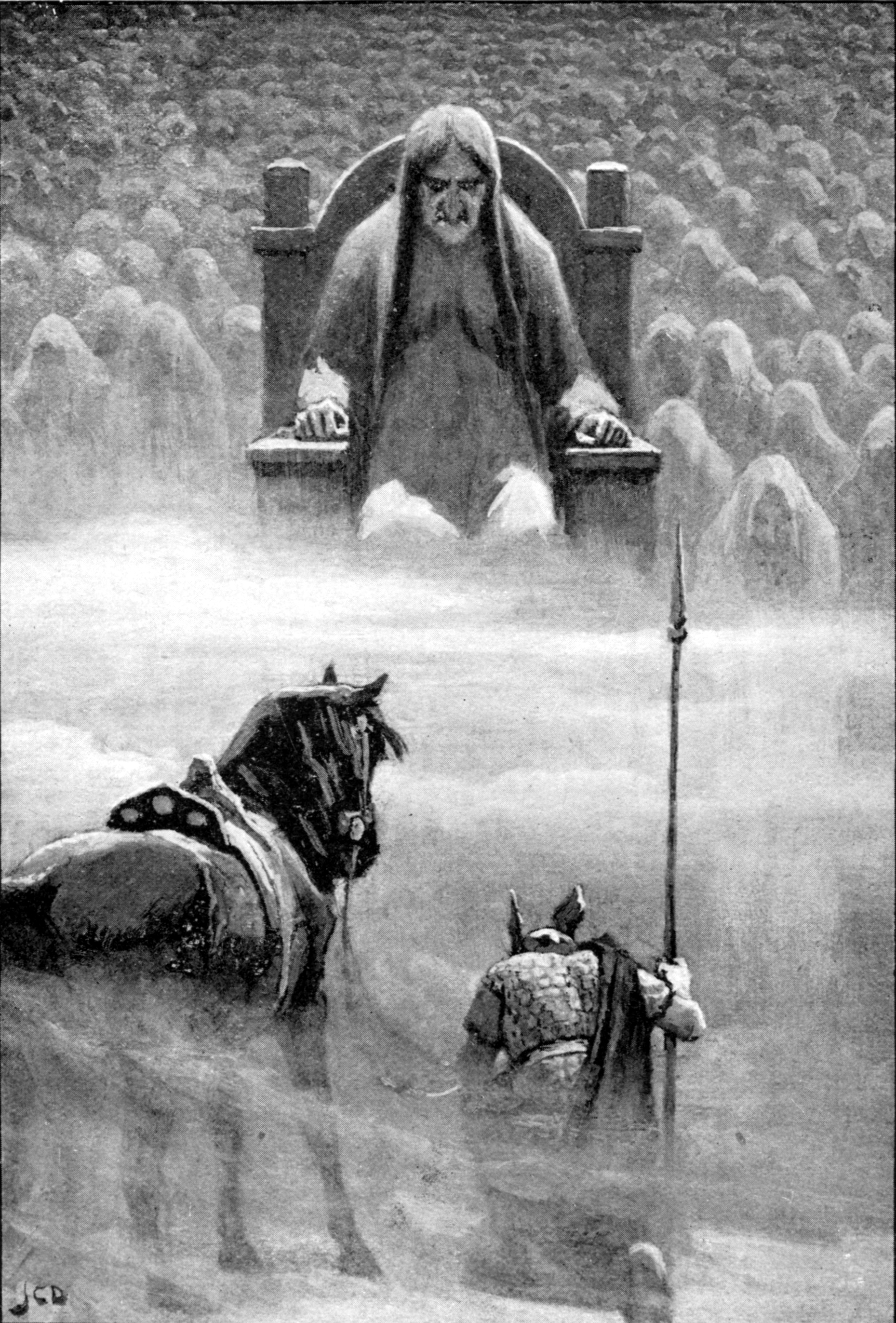 Hermod before Hela (the title given to the work in the list of illustrations on page vii)